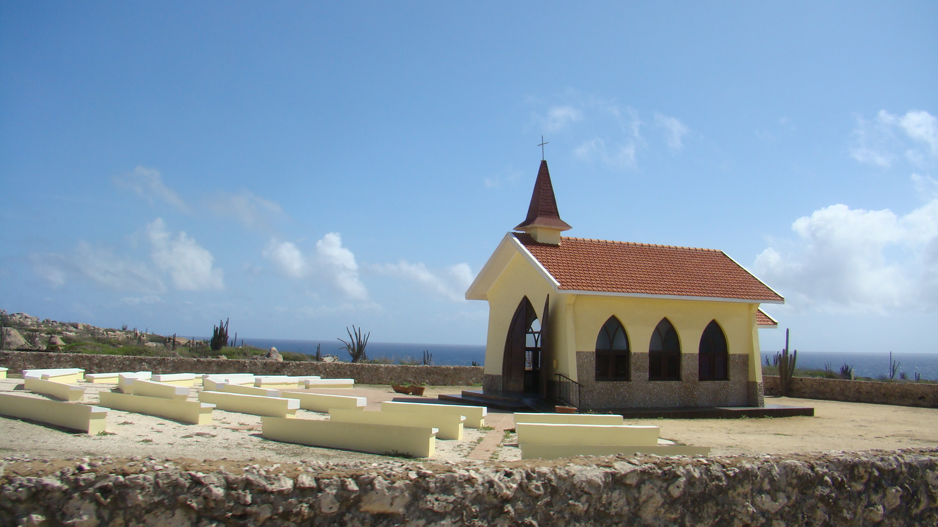 This was the first chapel on Aruba, and still in use today.